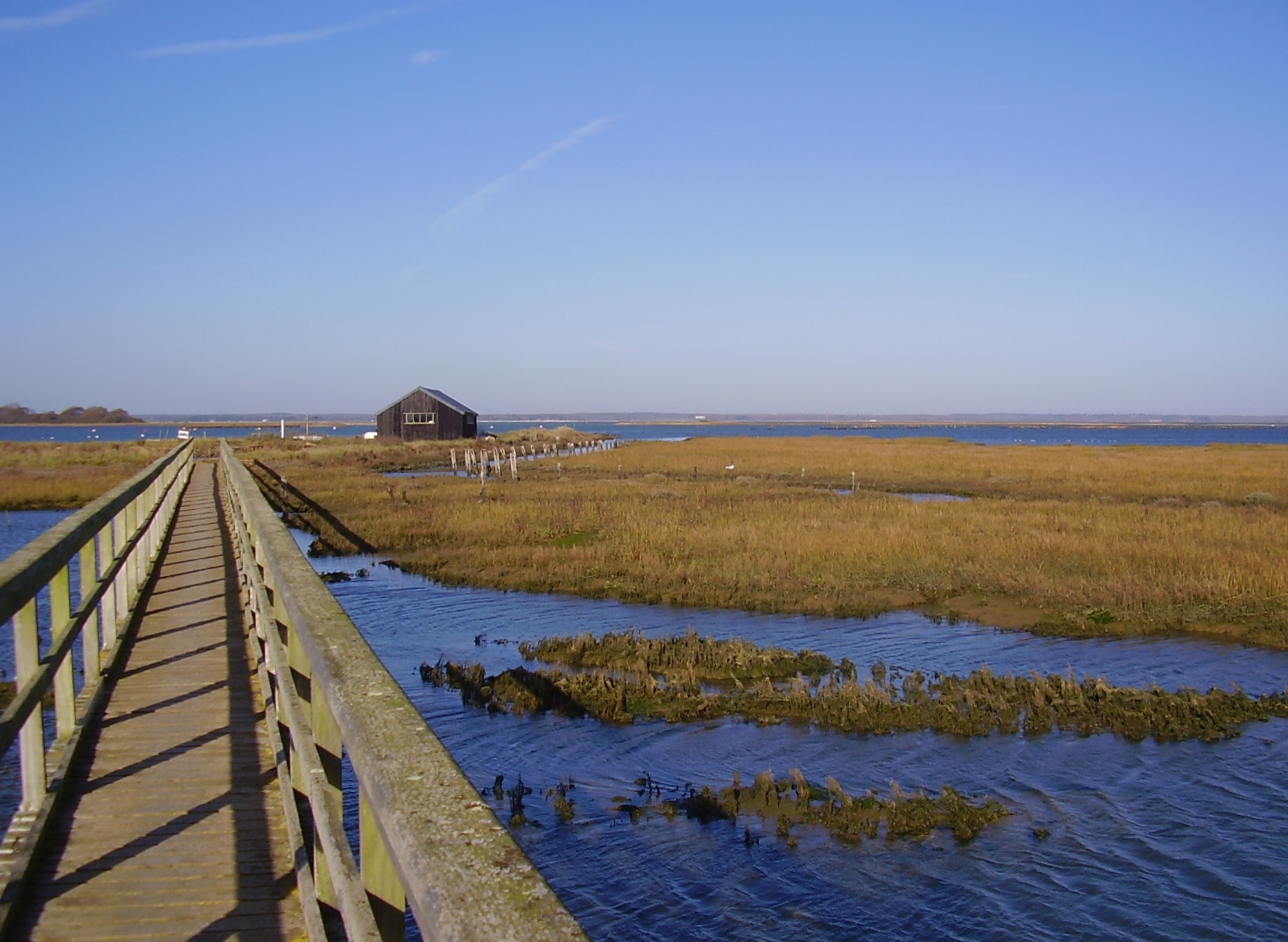 Newtown Harbour, Isle of Wight; looking North, with the mainland in the distance